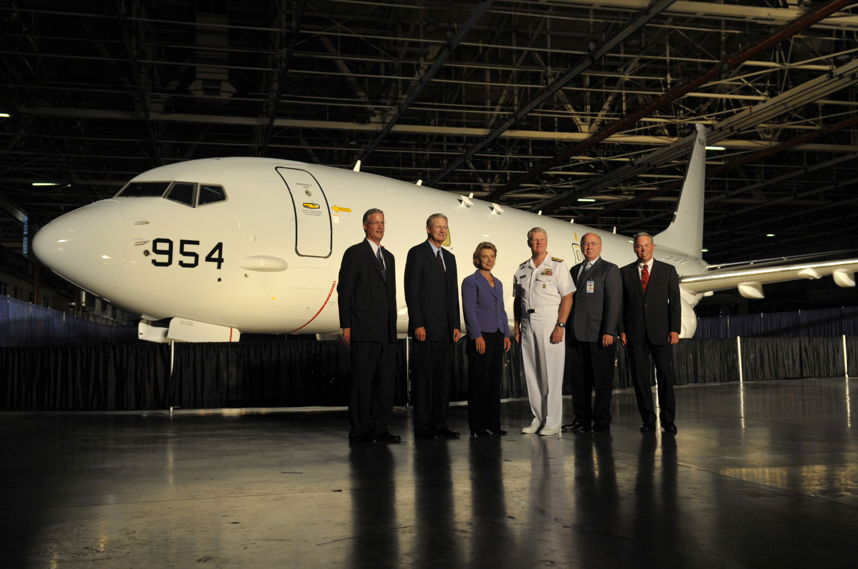 The U.S. Navy Chief of Naval Operations (CNO) Admiral Gary Roughead, center, and the governor of the U.S. state of Washington, Christine Gregoire, and senior executives of the Boeing Company in front of the Boeing P-8A Poseidon patrol aircraft (BuNo 167954) during a rollout ceremony in Seattle, Washington (USA), on 30 July 2009.